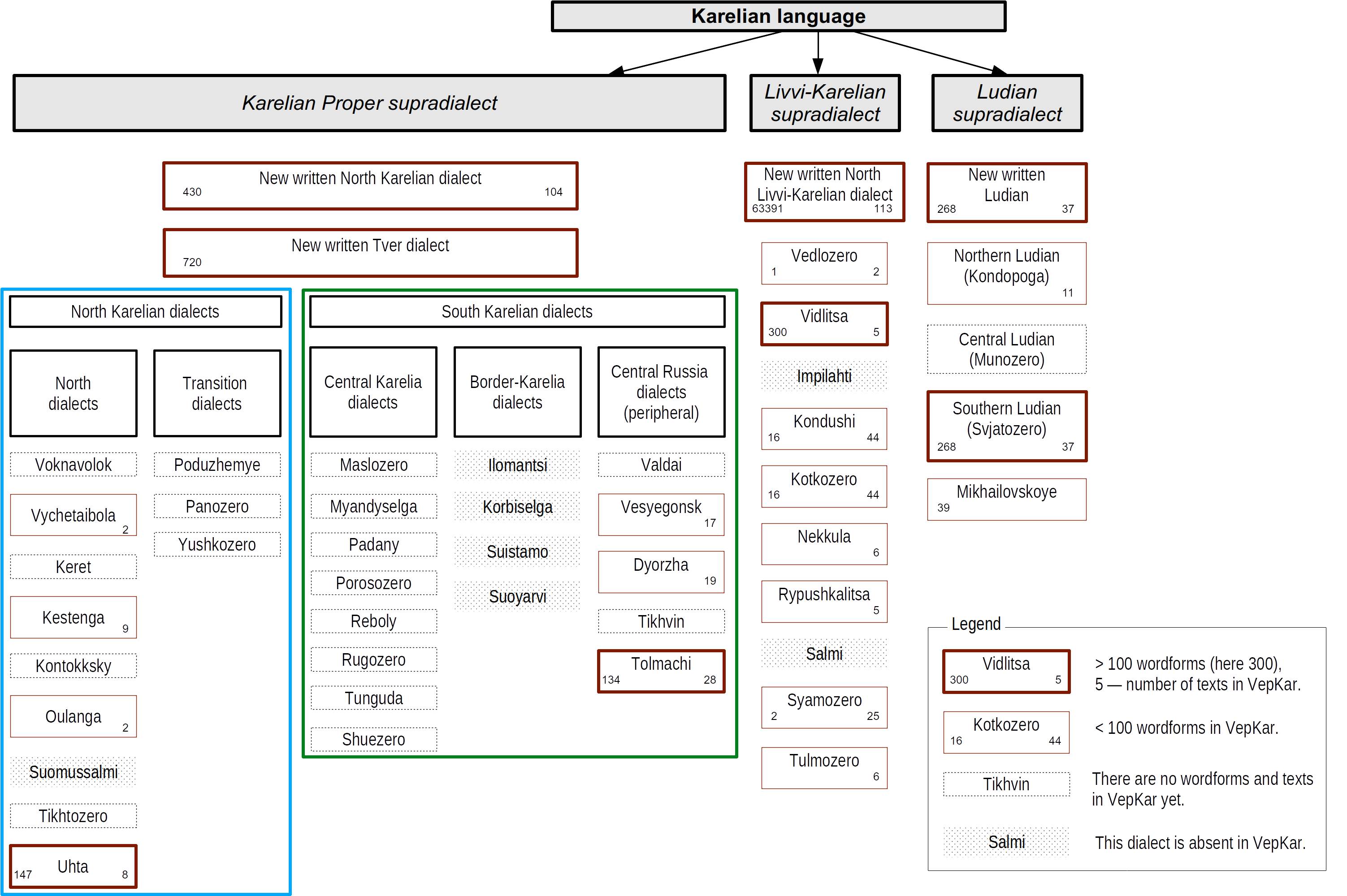 Scheme of dialects of the Karelian language includes Karelian Proper supradialect, Livvi-Karelian supradialect, Ludian supradialect. The number of word forms (left) and the number of texts (right) in VepKar corpus are indicated in rectangles with the names of the dialects, 2019.